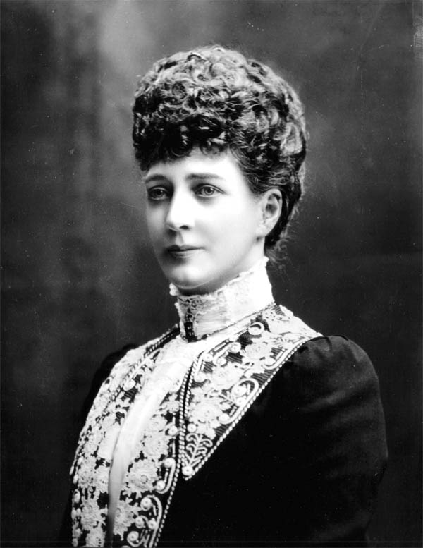 Queen Alexandra (1844-1925), consort of King Edward VII. on the Kaiser's visit to Sandringham 8–15 November 1902.